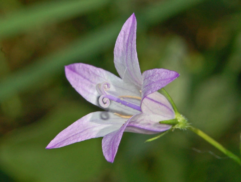 Campanula rapunculus - Genova, Italy